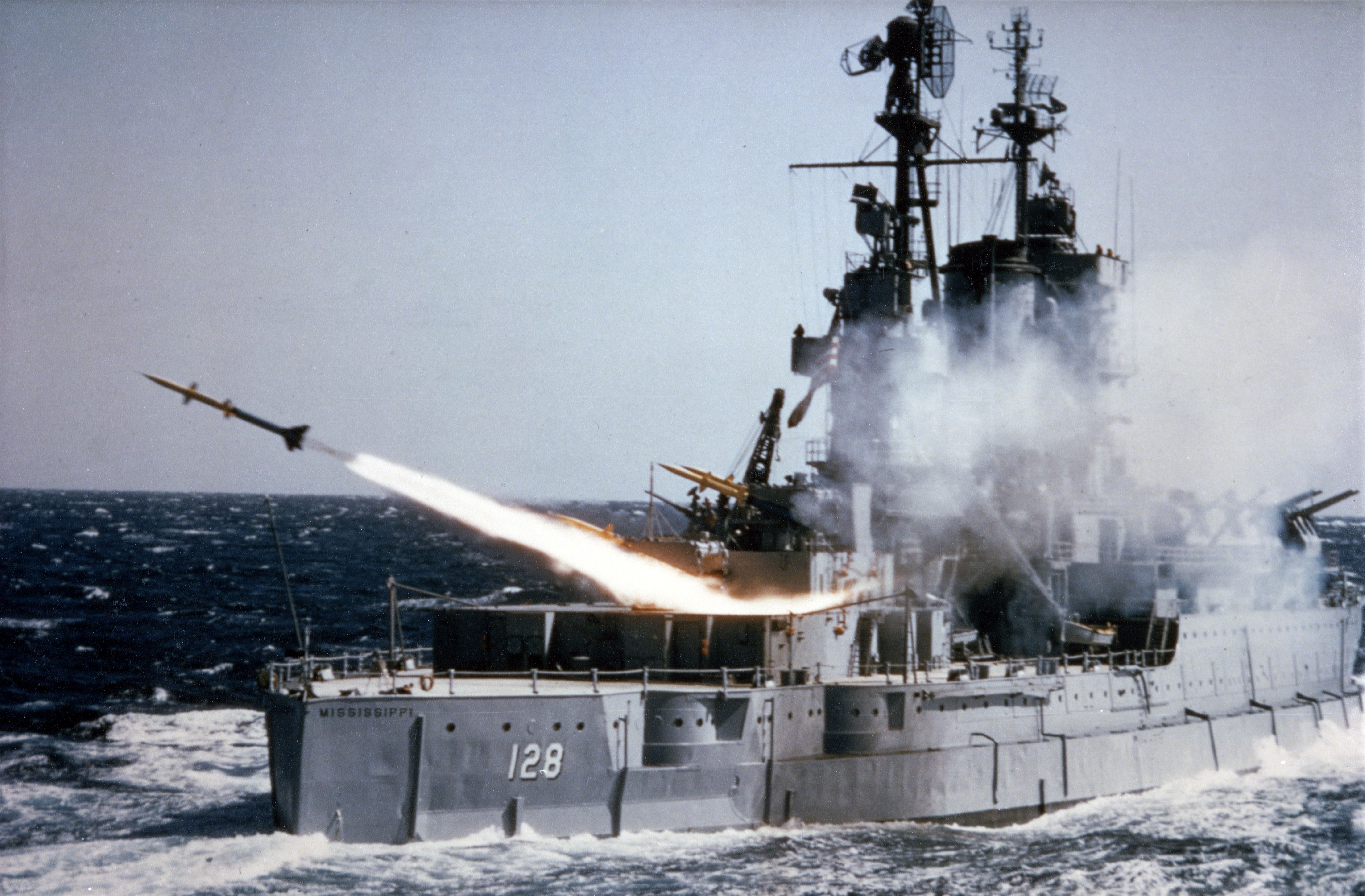 The U.S. Navy auxiliary USS Mississippi (EAG-128) fires an SAM-N-7 Terrier surface-to-air missile during at-sea tests, circa 1953-55. In 1962, the Terrier was redesignated RIM-2.